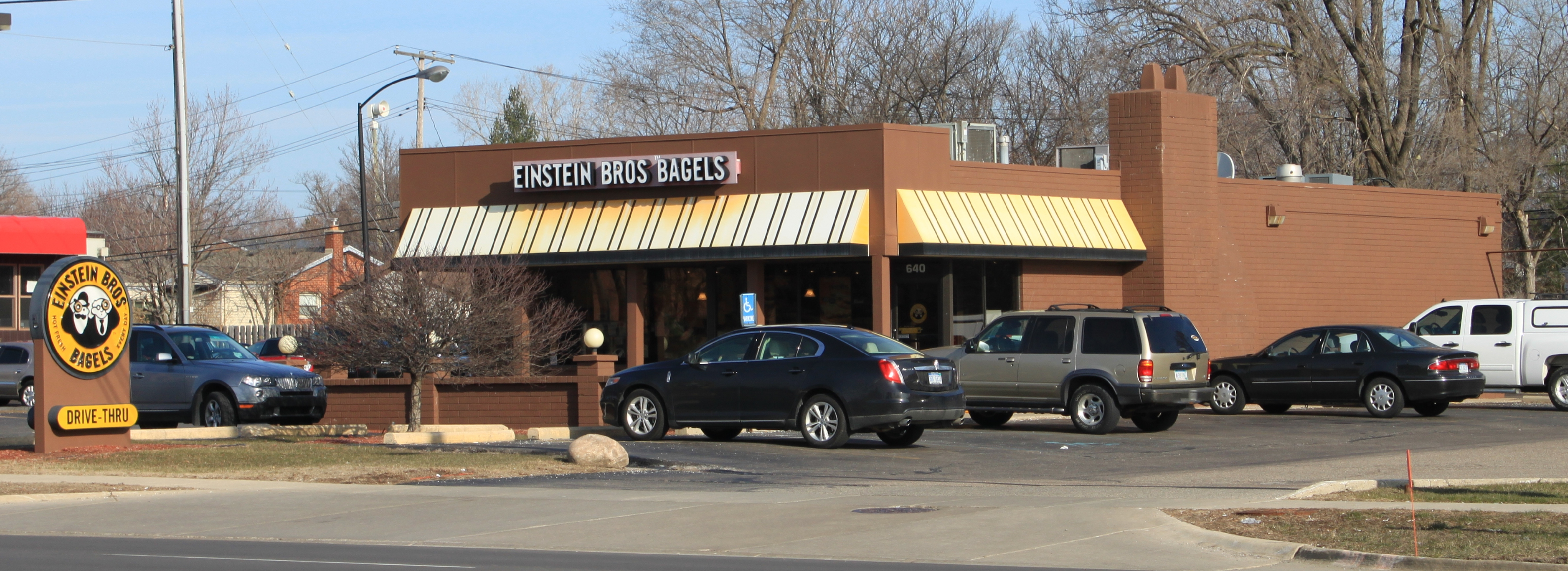 Einstein Bros. Bagels restaurant, 640 Ann Arbor Road, Plymouth, Michigan